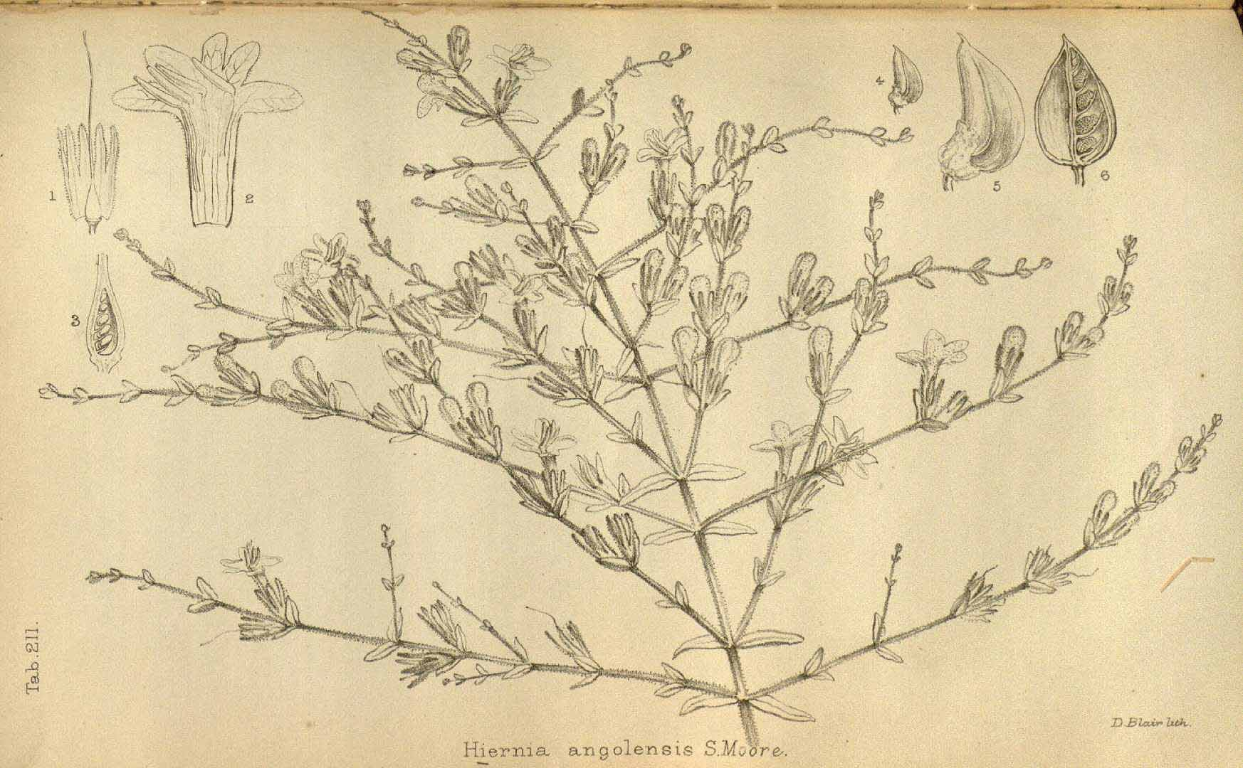 Hiernia angolensis S.Moore Journal of botany, British and foreign [B. Seemann], vol. 18: t. 211 (1880) - Genus named after William Philip Hiern (1839-1925)